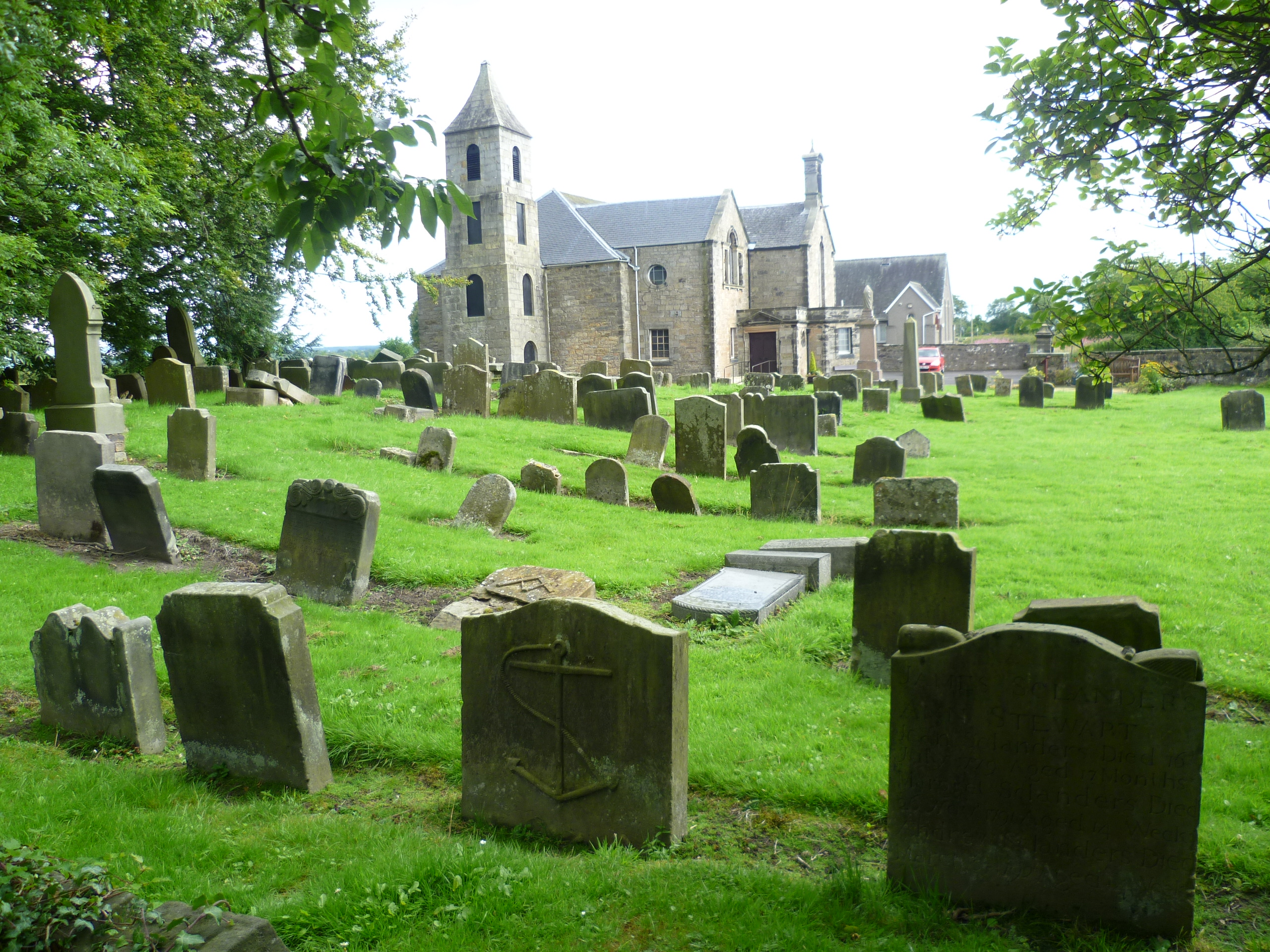 Bothkennar Parish Church and Churchyard